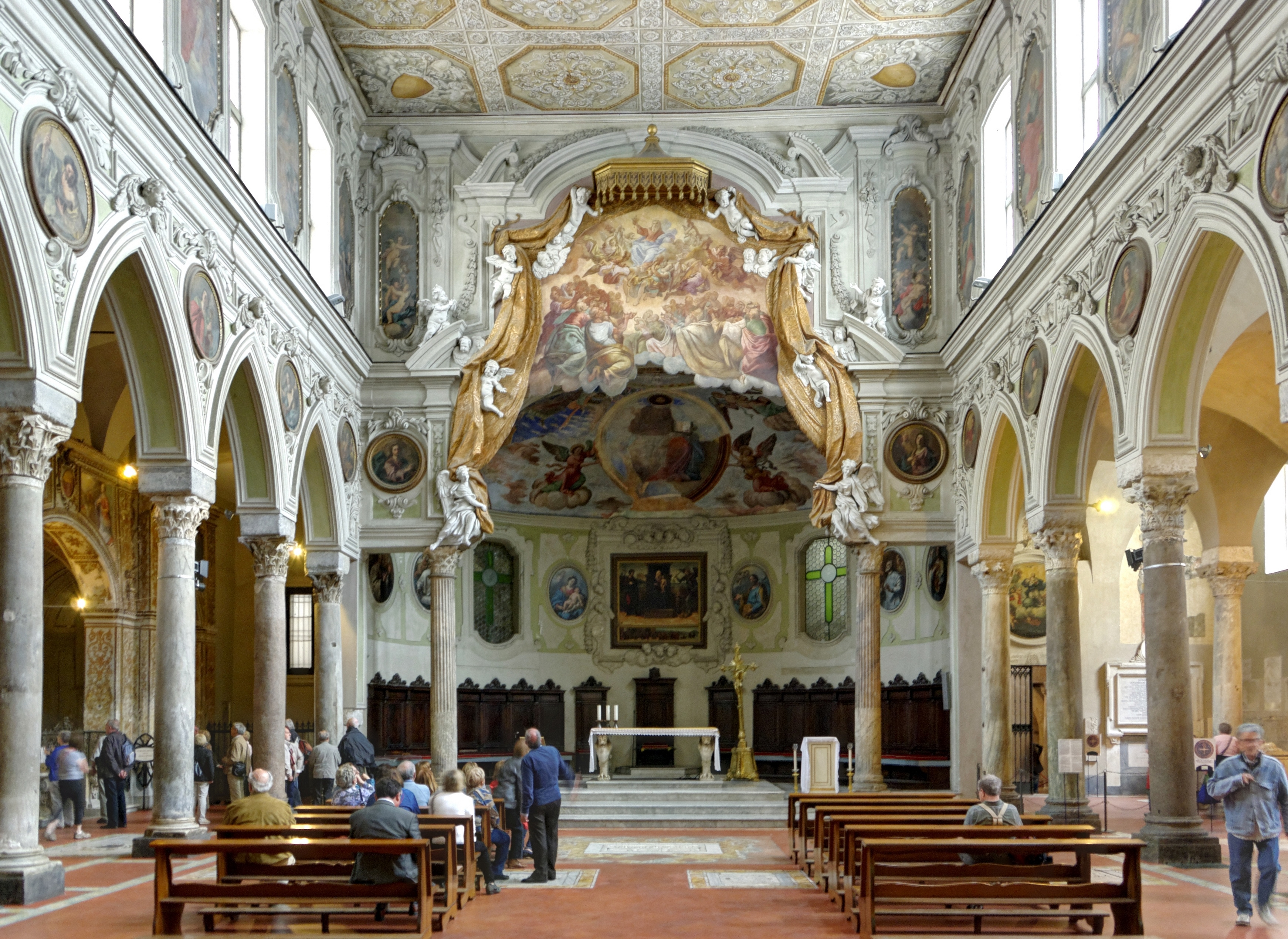 Naples, cathedral, Basilica di Santa Restituta